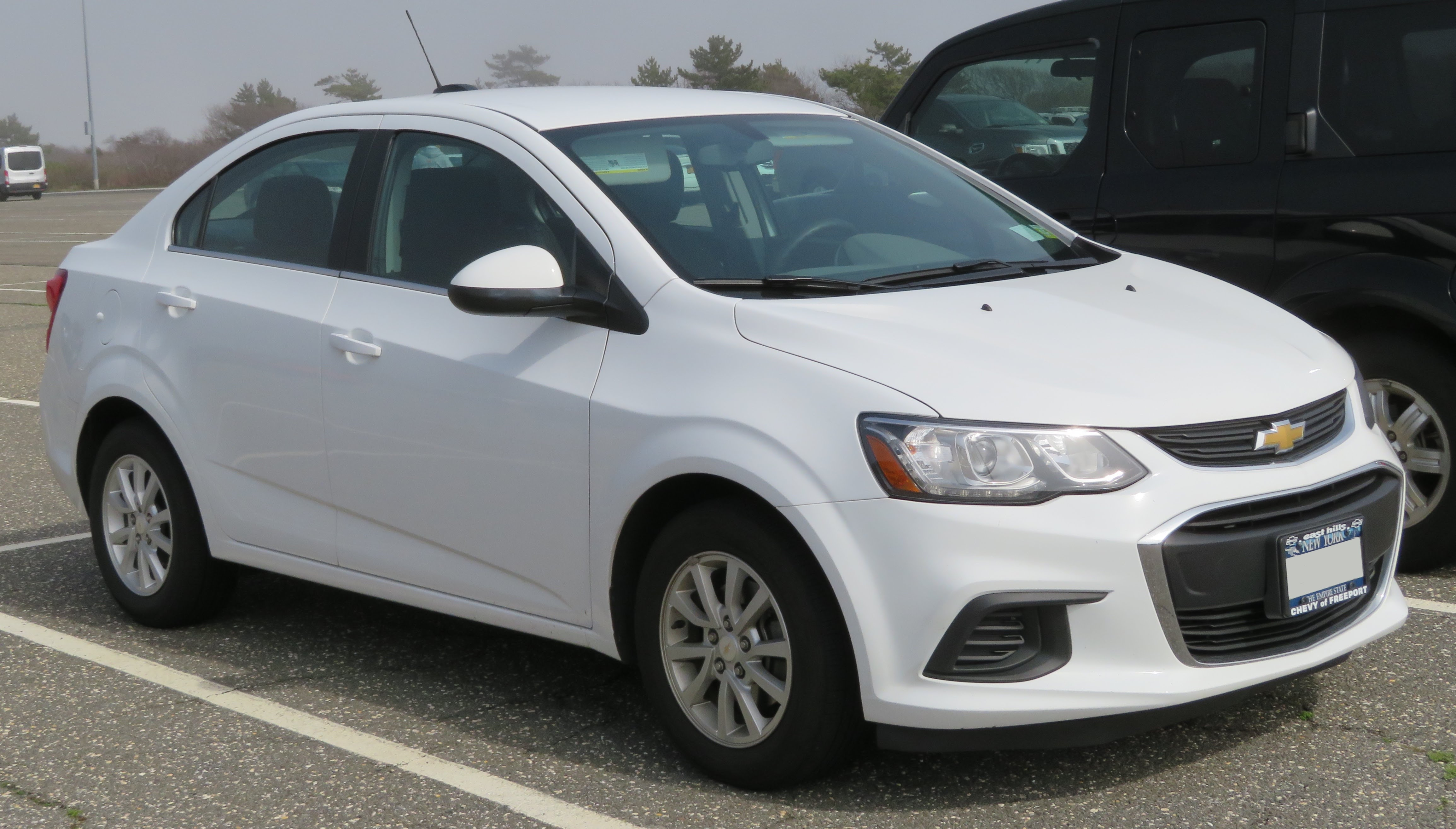 In Long Island, New York